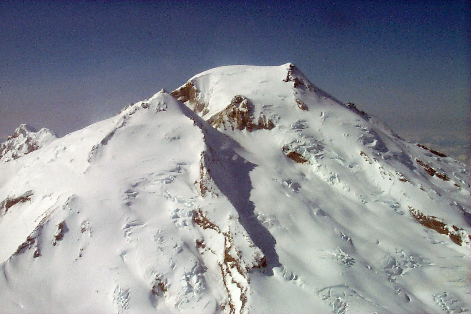 A view of Mount Baker in the Cascade Range of Washington.